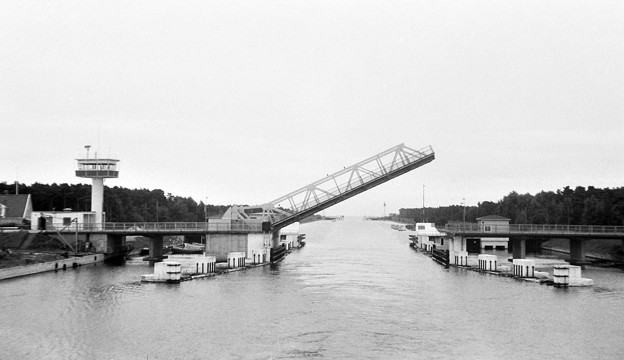 Old bridge over Falsterbo canal. This wooden bridge was replaced in 1991.